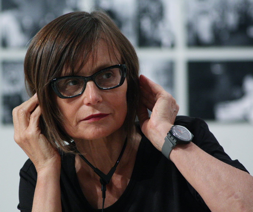 Slovenian art critic. Moscow, 2014